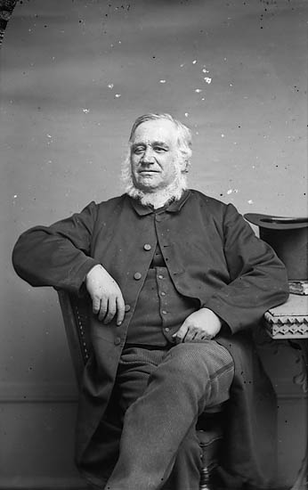 1 negative : glass, wet collodion, b&w ; 11 x 16.5 cm.